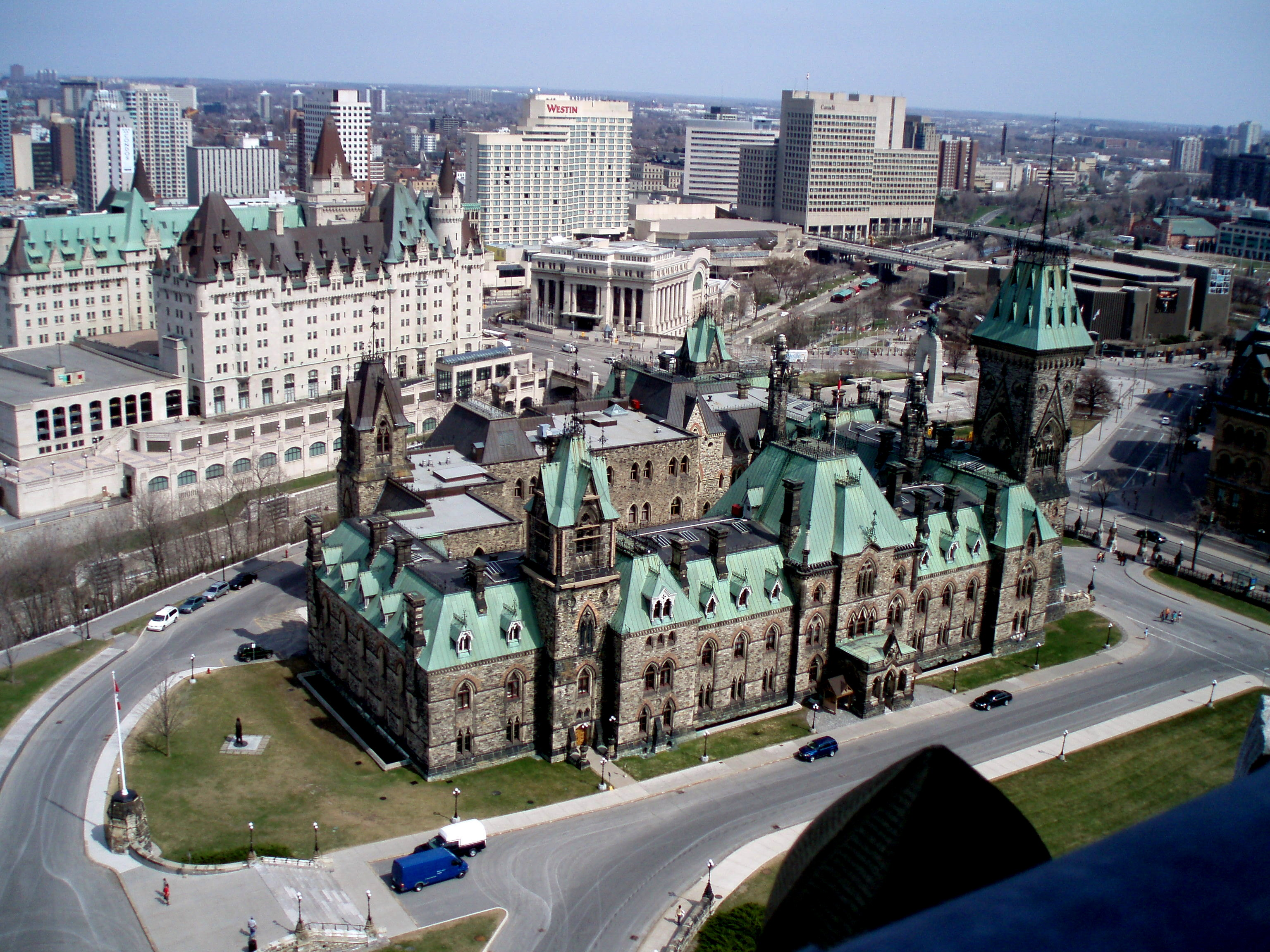 Parliament Hill East building seen from the top of the Peace Tower. Chateau Laurier can also be seen in the back.